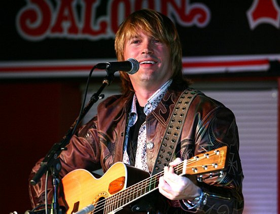 Rockie Lynne at the Maverick Saloon & Grill, Santa Maria, California. Original image cropped slightly by Ali'i.